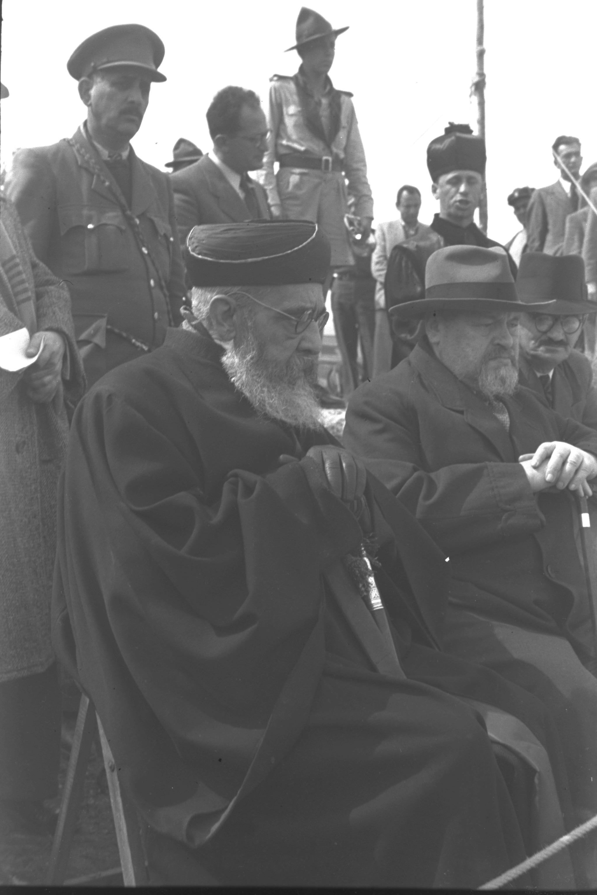 SEPHARDIC CHIEF RABBI BEN TZION UZIEL (L) AT A MEMORIAL CEREMONY FOR JEWISH SOLDIERS WHO FELL IN WORLD WAR II, HELD AT THE MEMORIAL FOREST IN THE JERUSALEM HIILS. הראשון לציון, הרב הראשי בן ציון עוזיאל (משמאל), משתתף בטקס אזכרה לחיילים יהודים שנפלו במלחמת העולם השניה, ביער הזכרון בהרי ירושלים.